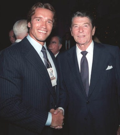 C23742-34, President Reagan having a photo taken with Arnold Schwarzenegger at the Republican National Convention in Dallas, Texas.